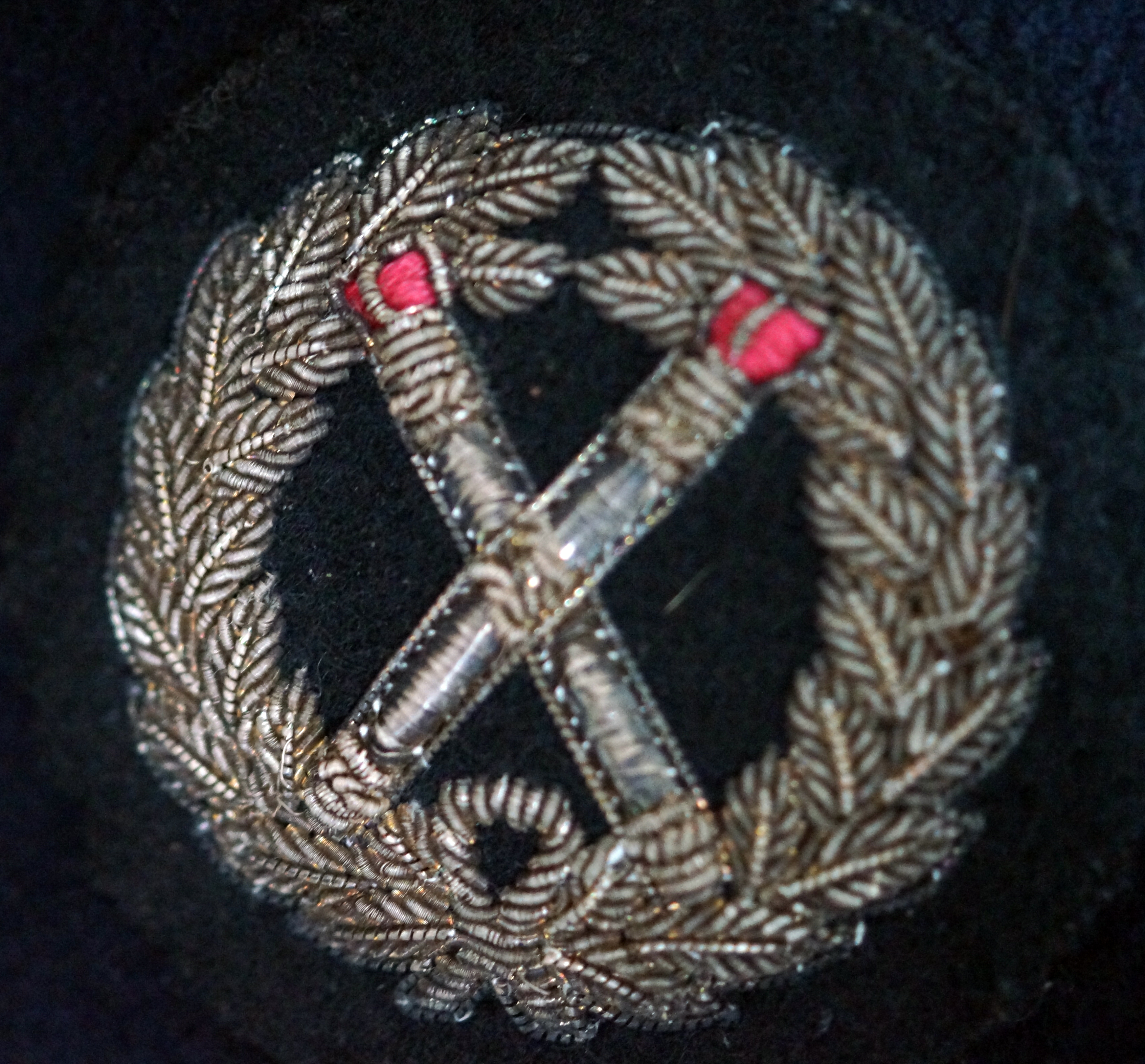 Rank insignia of police assistant chief constable or commander (London forces) in West Midlands Police Museum, Sparkhill, Birmingham, England.